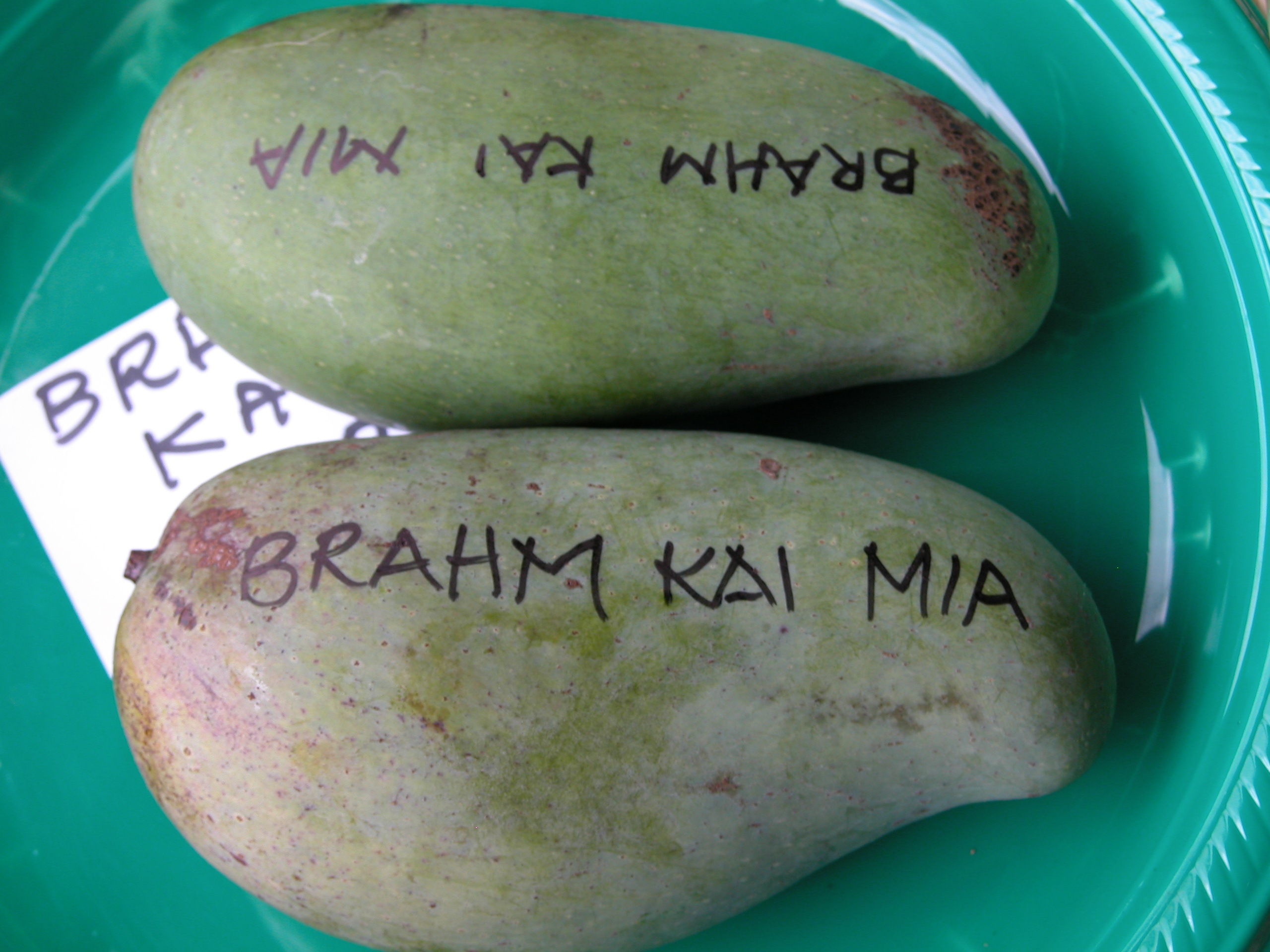 This photo is a display of Brahm Kai Meu mango at the Tropical Agricultural Fiesta held in the Fruit And Spice Park in Homestead, Florida.